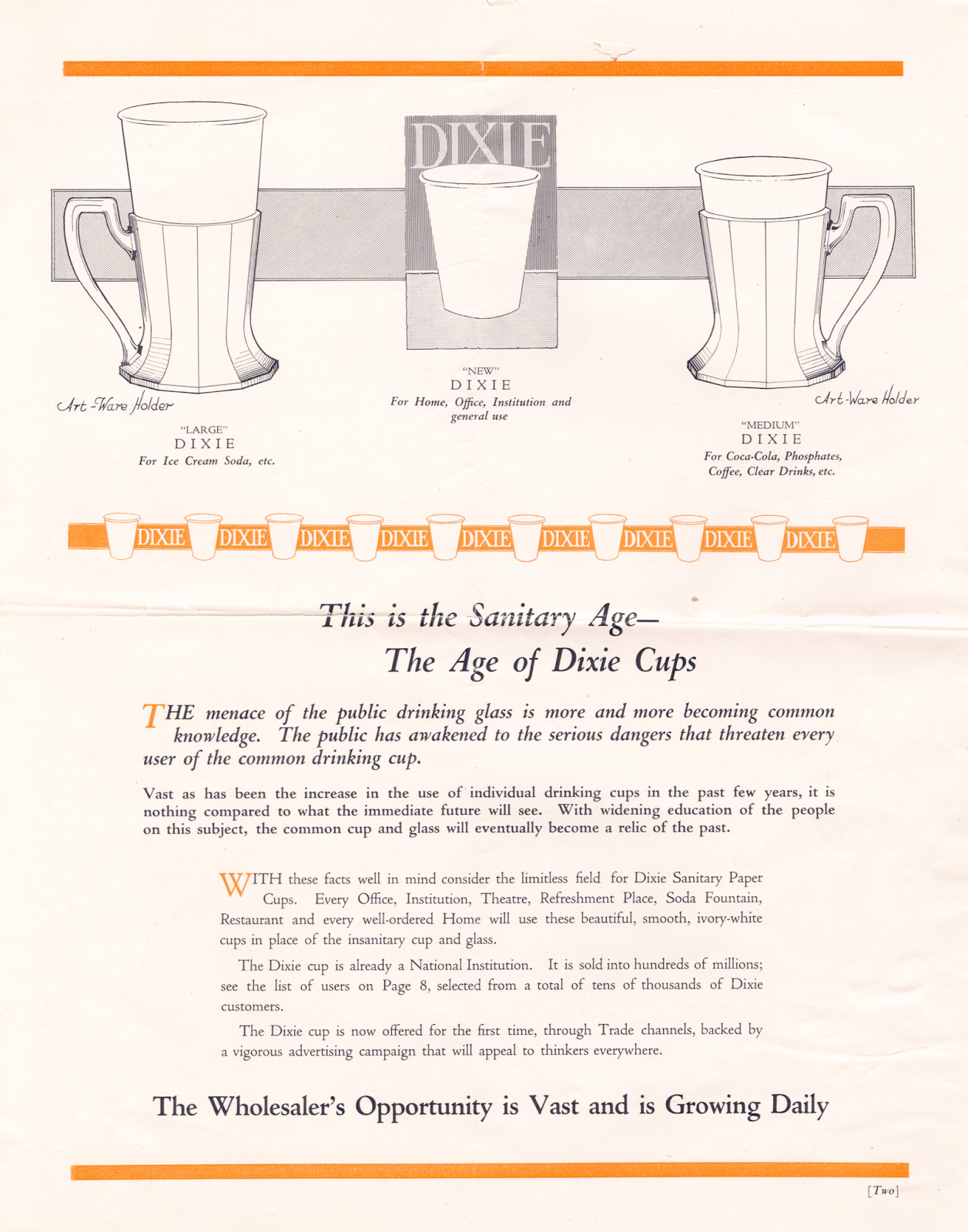 This advertisement shows the main angle that the early paper cup company followed in terms of marketing towards the publics fear of disease.